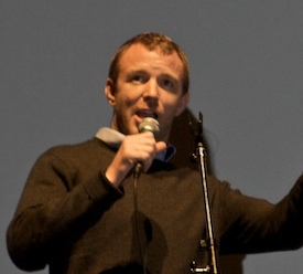 TIFF 2008 - RocknRolla